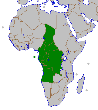 The Economic Community of Central African States (ECCAS) is an organisation for promotion of regional economic co-operation in . It "aims to achieve collective autonomy, raise the standard of living of its populations and maintain economic stability through harmonious cooperation". History and background At a summit meeting in December 1981, the leaders of the (UDEAC) agreed in principle to form a wider economic community of Central African states. ECCAS was established on by the UDEAC members, and the members of the (CEPGL established in 1976 by the , and ). remained an observer until 1999, when it became a full member. French language: CommunautÃ© Ã‰conomique des Ã‰tats d'Afrique Centrale; Spanish language: Comunidad EconÃ³mica de Estados de Ã frica Central, (CEEAC)